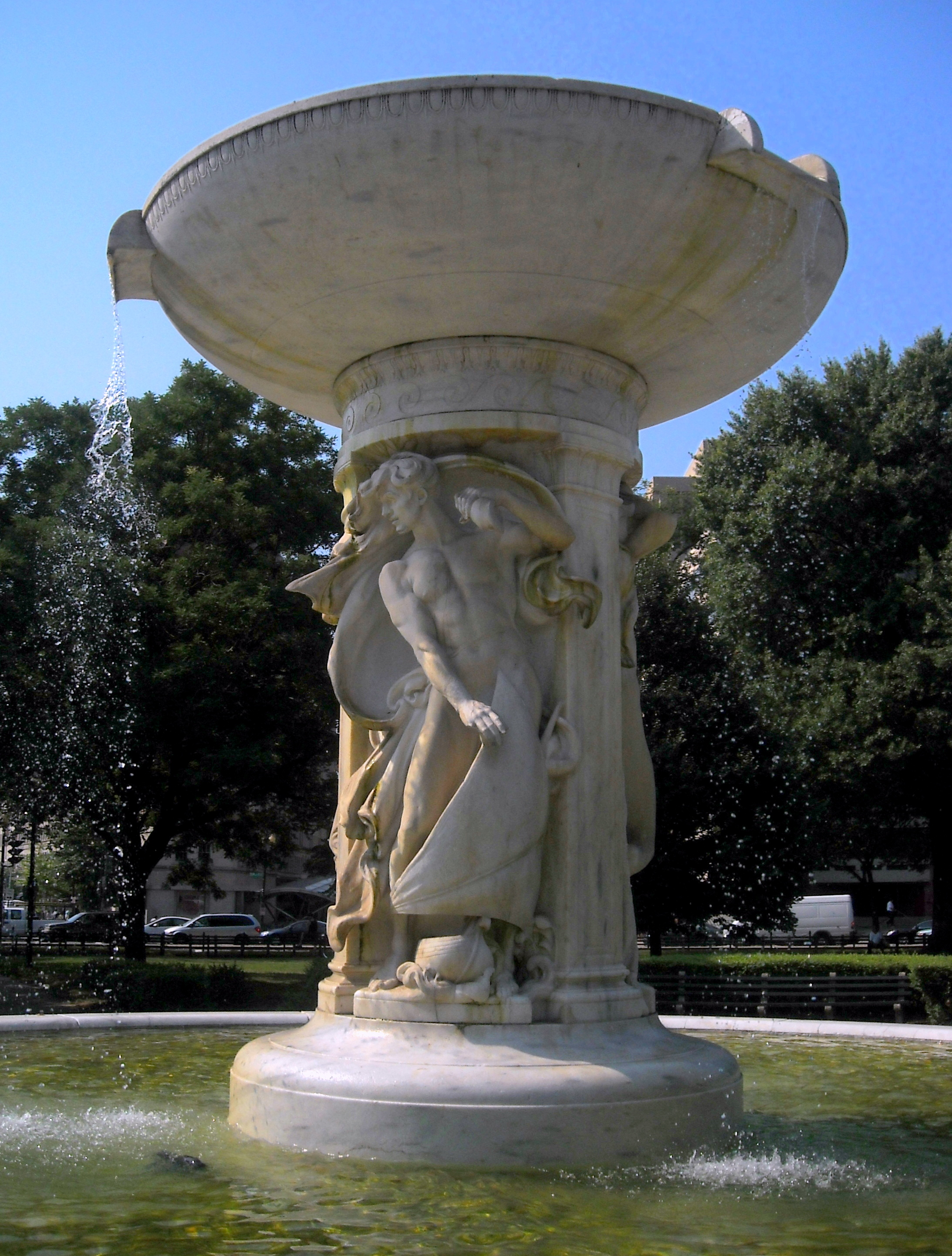 The fountain located at the center of Dupont Circle in Washington, D.C. Designed by Daniel Chester French and Henry Bacon in 1921, the white marble fountain is in honor of Admiral Samuel Francis Du Pont. The fountain's shaft features carvings of three classical nudes symbolizing the sea, the stars, and the wind. It is a contributing property to the Dupont Circle Historic District.